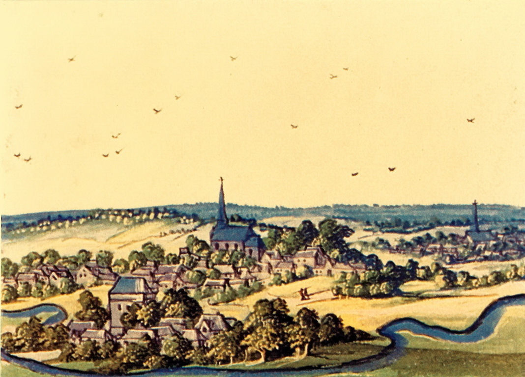 Royon village by Adrien de Montigny for the Duc Charles de Croÿ (1600)